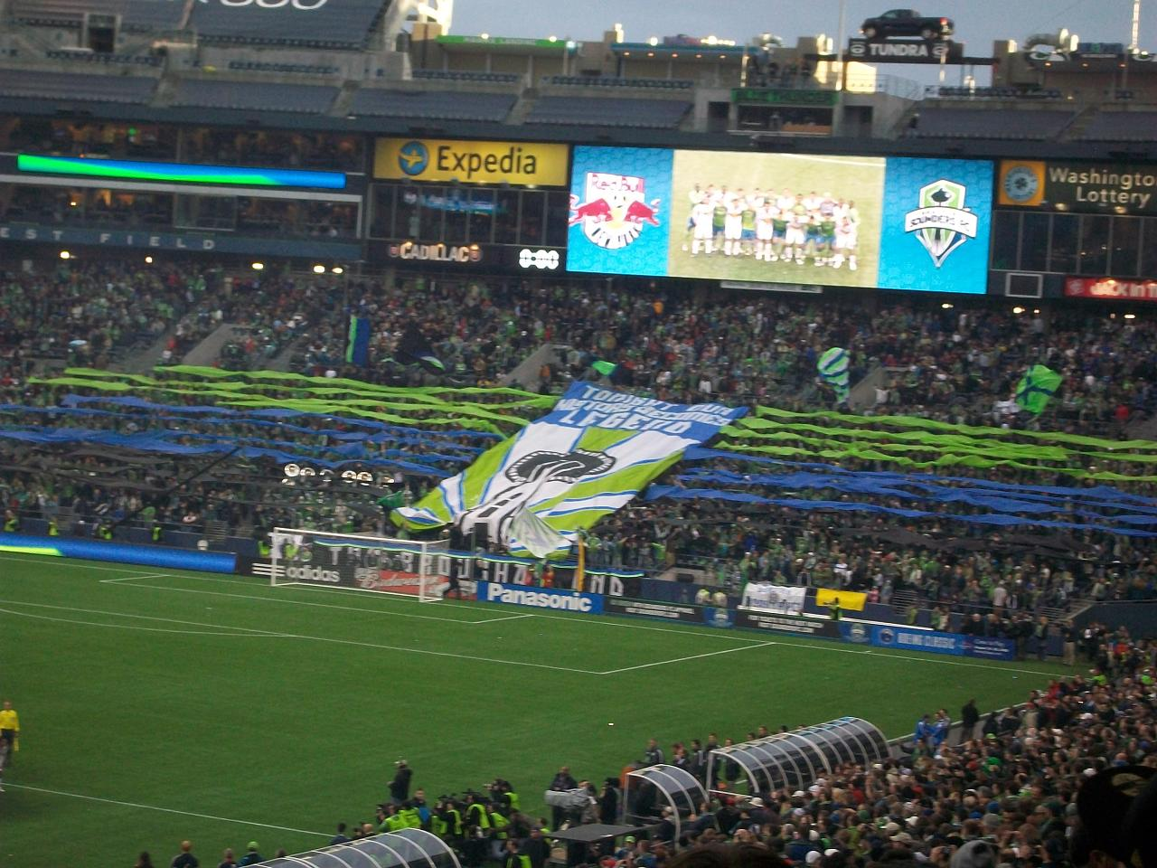 Supporters of the Seattle Sounders unveil a tifo during a March 2009 game.